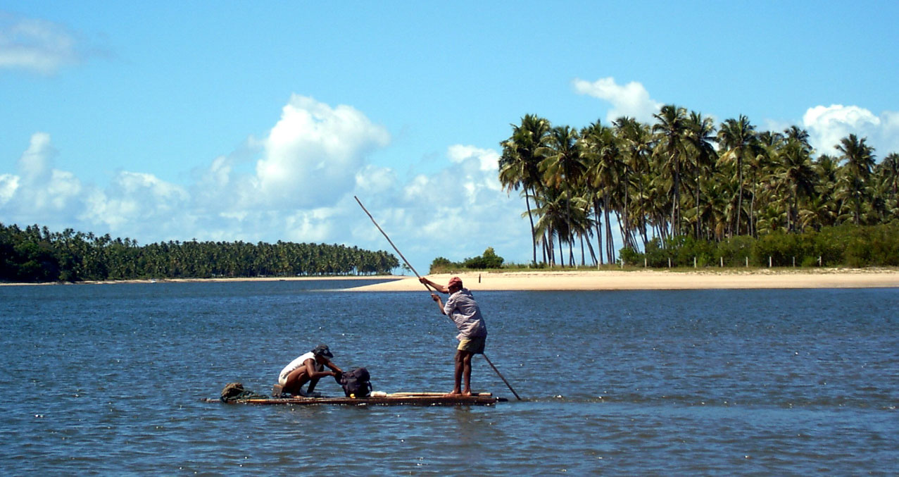 Fishermen at freshwater stream near Tamandaré, PE, Brazil